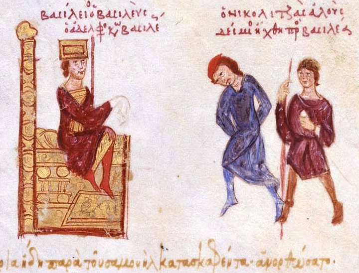 Emperor Basil II and Nikolitza